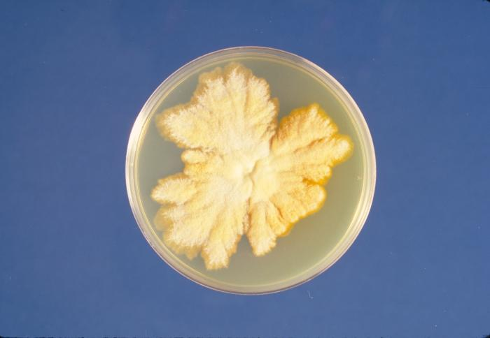 ID#: 3053 Description: This is a plate culture of growing colonies of the fungus Trichophyton mariatii. Many members of the Trichophyton spp. inhabit the soil, humans or animals, and are one of the leading causes of dermatophytosis in humans, an infections of the skin, hair, and nails due to these fungi’s ability to utilize keratin. Content Providers(s): Dr. Arvind A. Padhye Creation Date: 1979 Copyright Restrictions: None - This image is in the public domain and thus free of any copyright restrictions. As a matter of courtesy we request that the content provider be credited and notified in any public or private usage of this image.